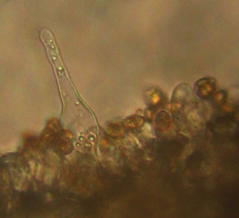 Microscopic features of the gill edge of the fungus Galerina marginata, shown at 400X. Species originally recorded as the synonym G. autumnalis. Image cropped out and rotated from original by uploader. The larger structure is a cheilocystidium; the smaller structures are basidia bearing spores.